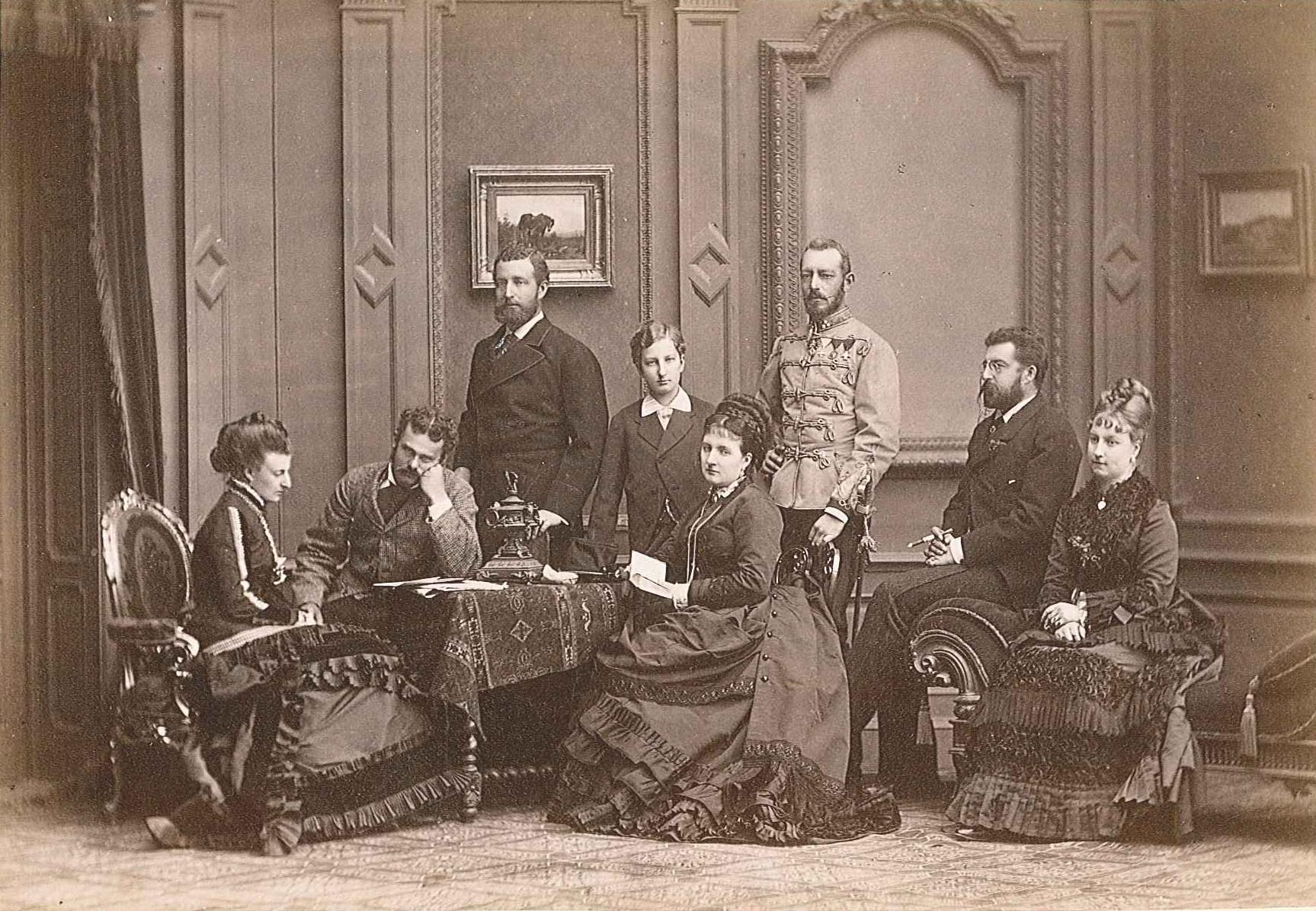 Members of the Ducal family of Saxe-Coburg-Gotha